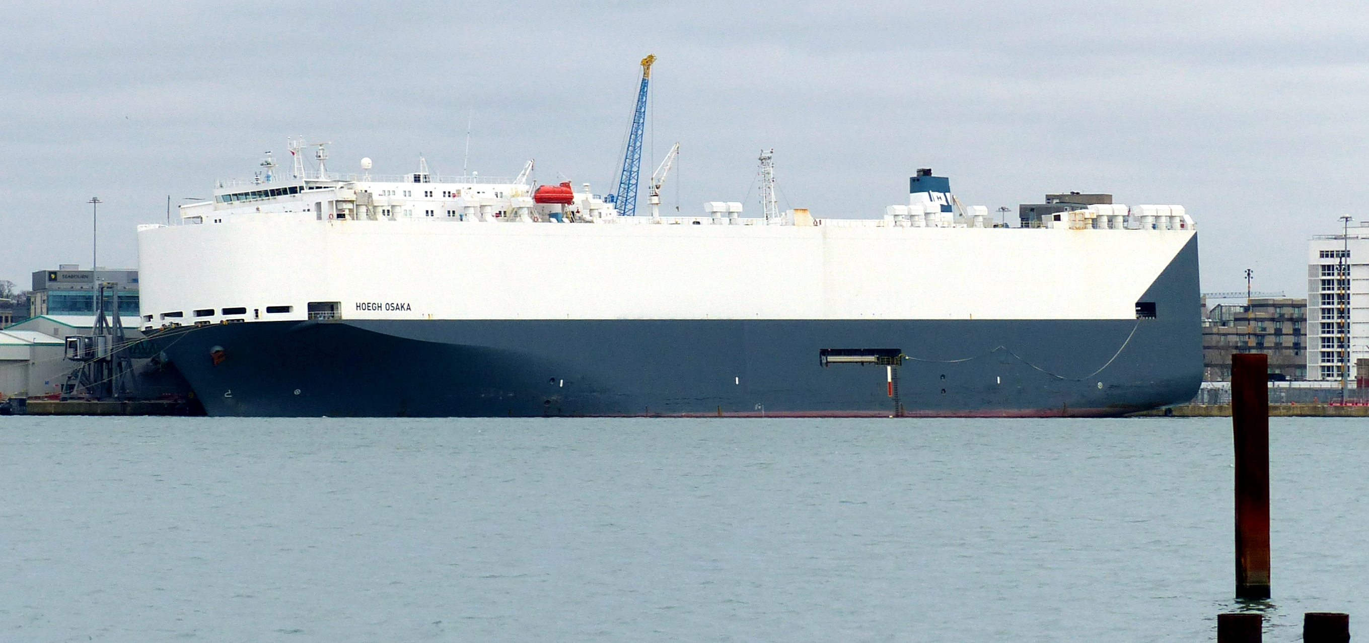 The Hoegh Osaka is now safely moored alongside in Southampton, after running aground in the Solent.